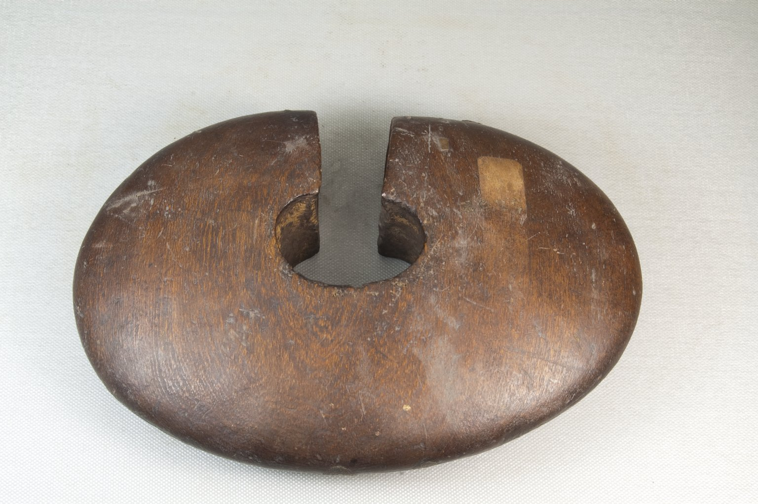 Pennanular with a gap of 1 1/4 in. central hole measures 2 1/4 in. at its greatest width. Decorative metal fasteners at rim on long sides of oval. Overall color: Walnut brown.